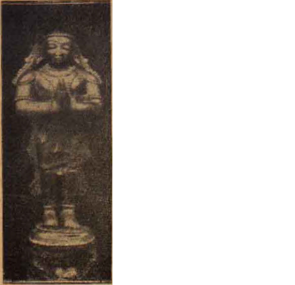 అమరనీతి నాయనారు